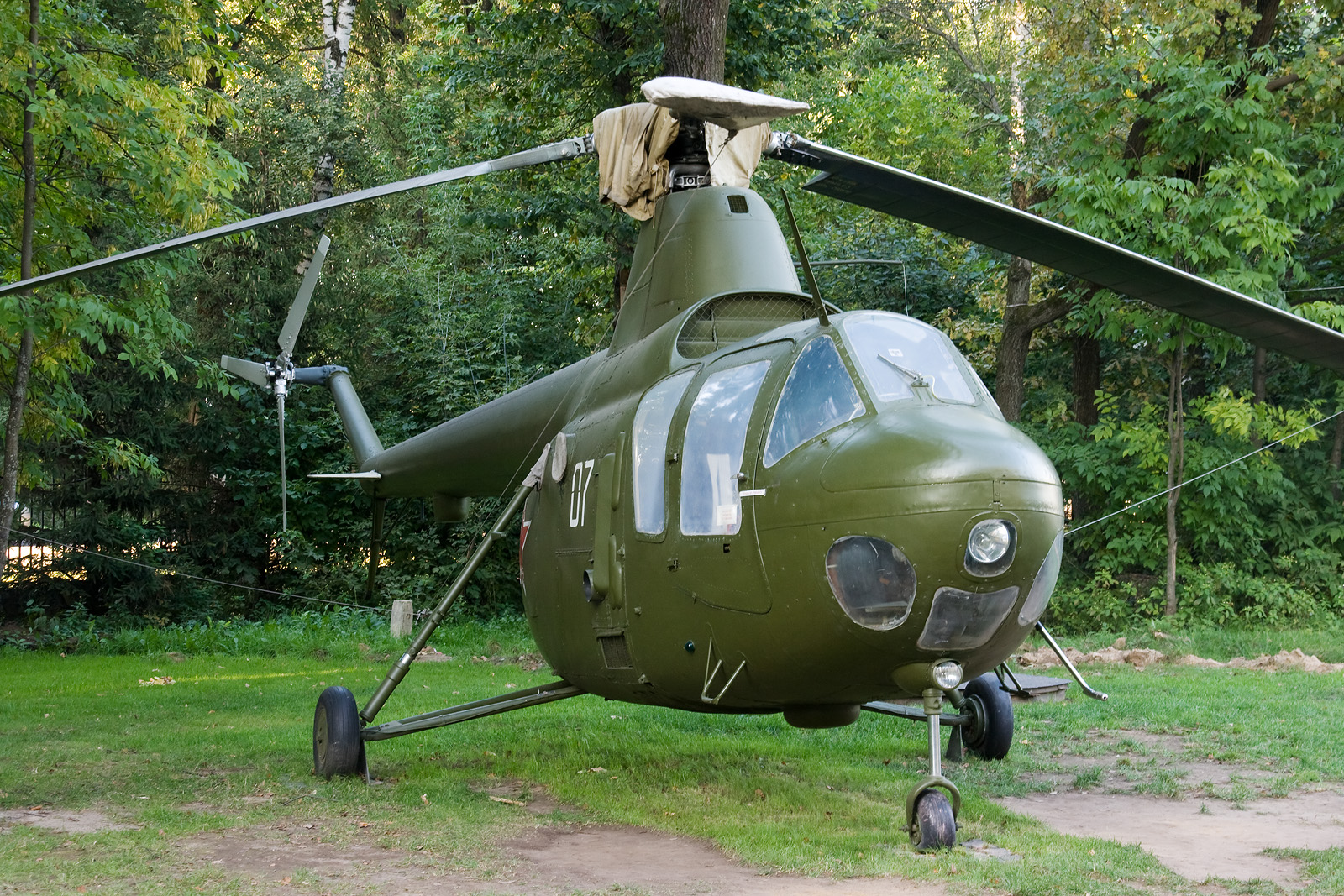 Mil Mi-1M